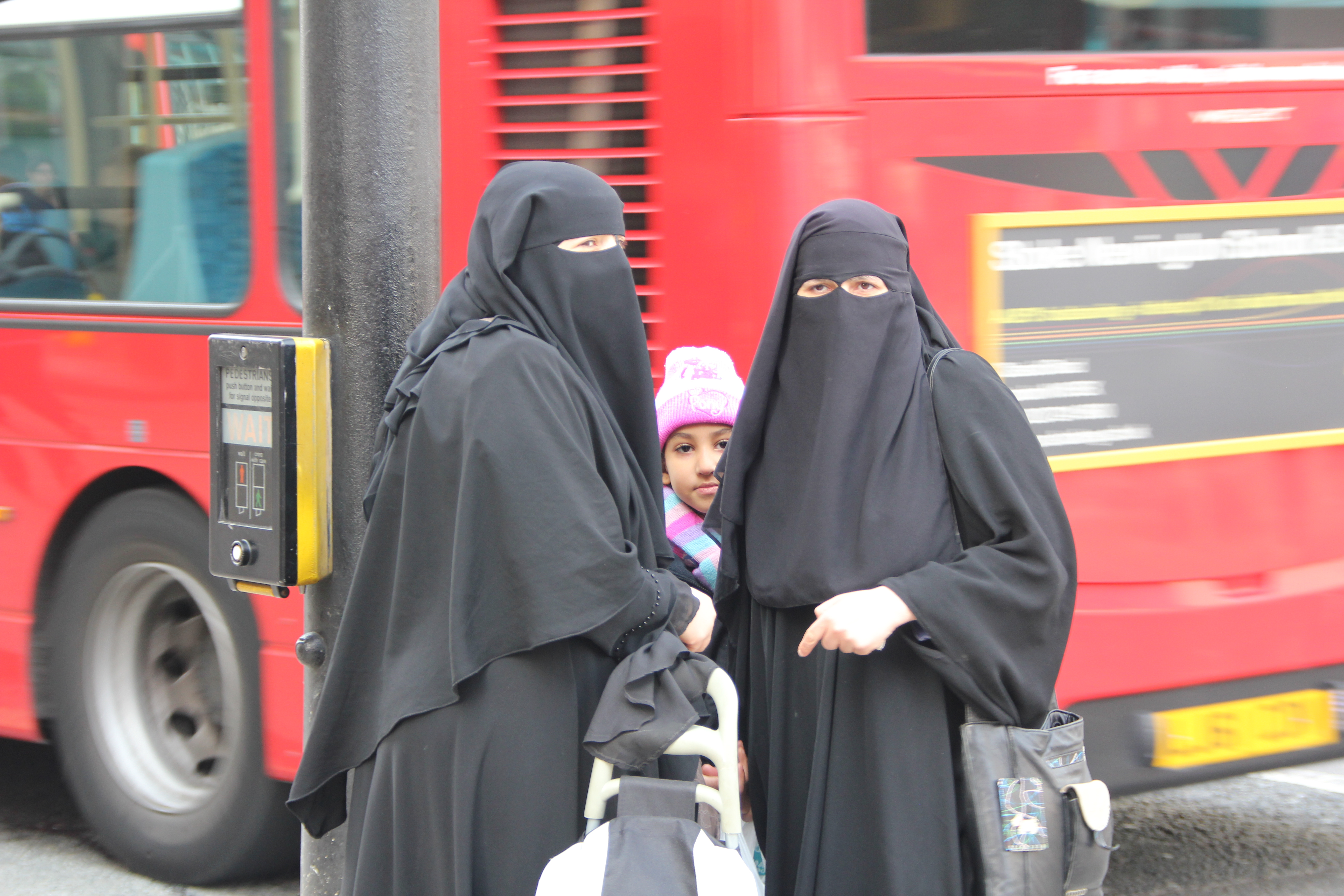 Women wearing niqabs in London.